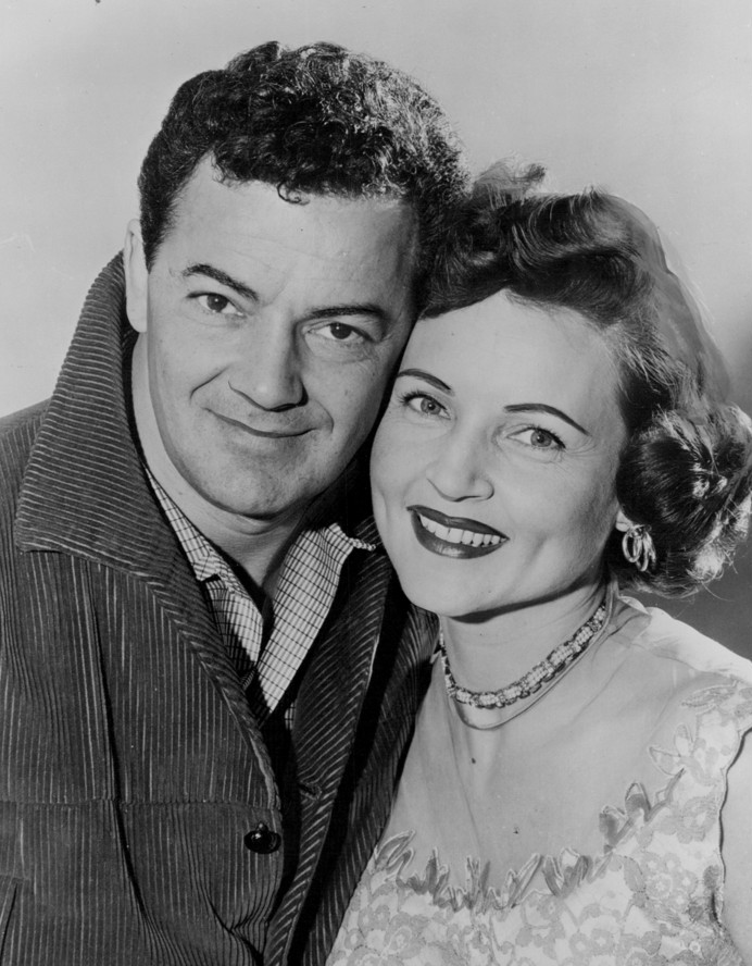 Photo of Cornel Wilde and Betty White from The Betty White Show in 1958. White had a prime-time comedy program in 1958; the photo is from this television show.